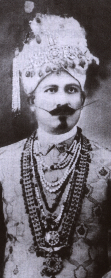 Umar bin-Awad al-Quaiti — ruler of the Qu'aiti Sultanate, in the Hadramaut during 1922-36. Qu'aiti was within the British Aden Protectorate (1869 - 1963).